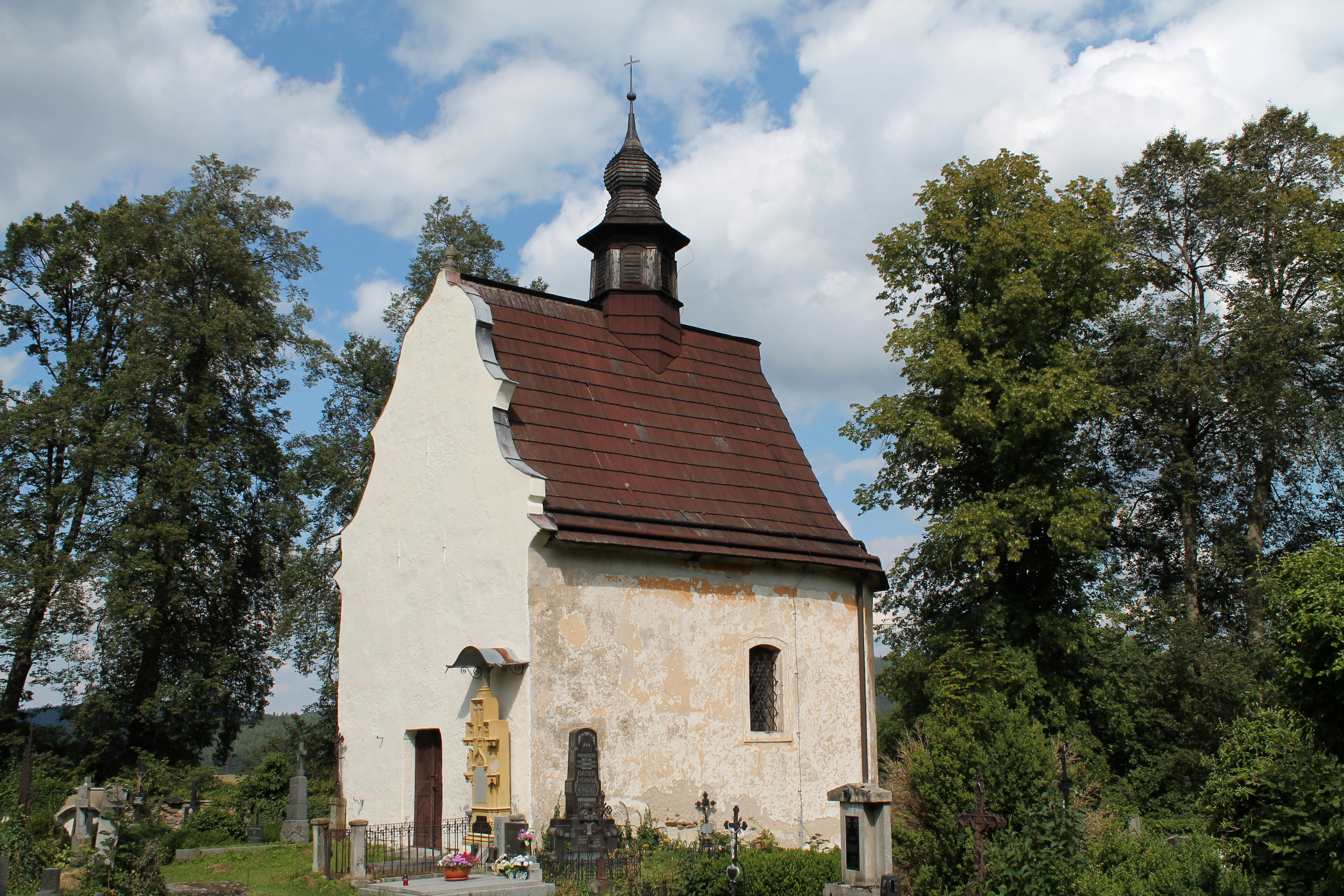 Chapel of Saint Anne, Kašperské Hory, Klatovy District, Czech Republic - Google Maps - Google Earth